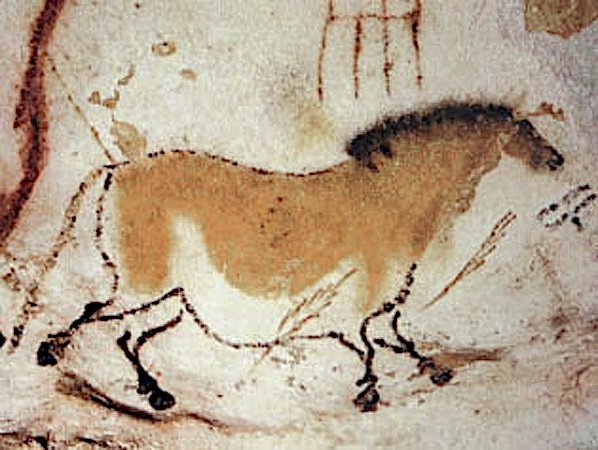 Image of a horse from the Lascaux caves made by the Cro-Magnon peoples at their hunting route in the Stone age